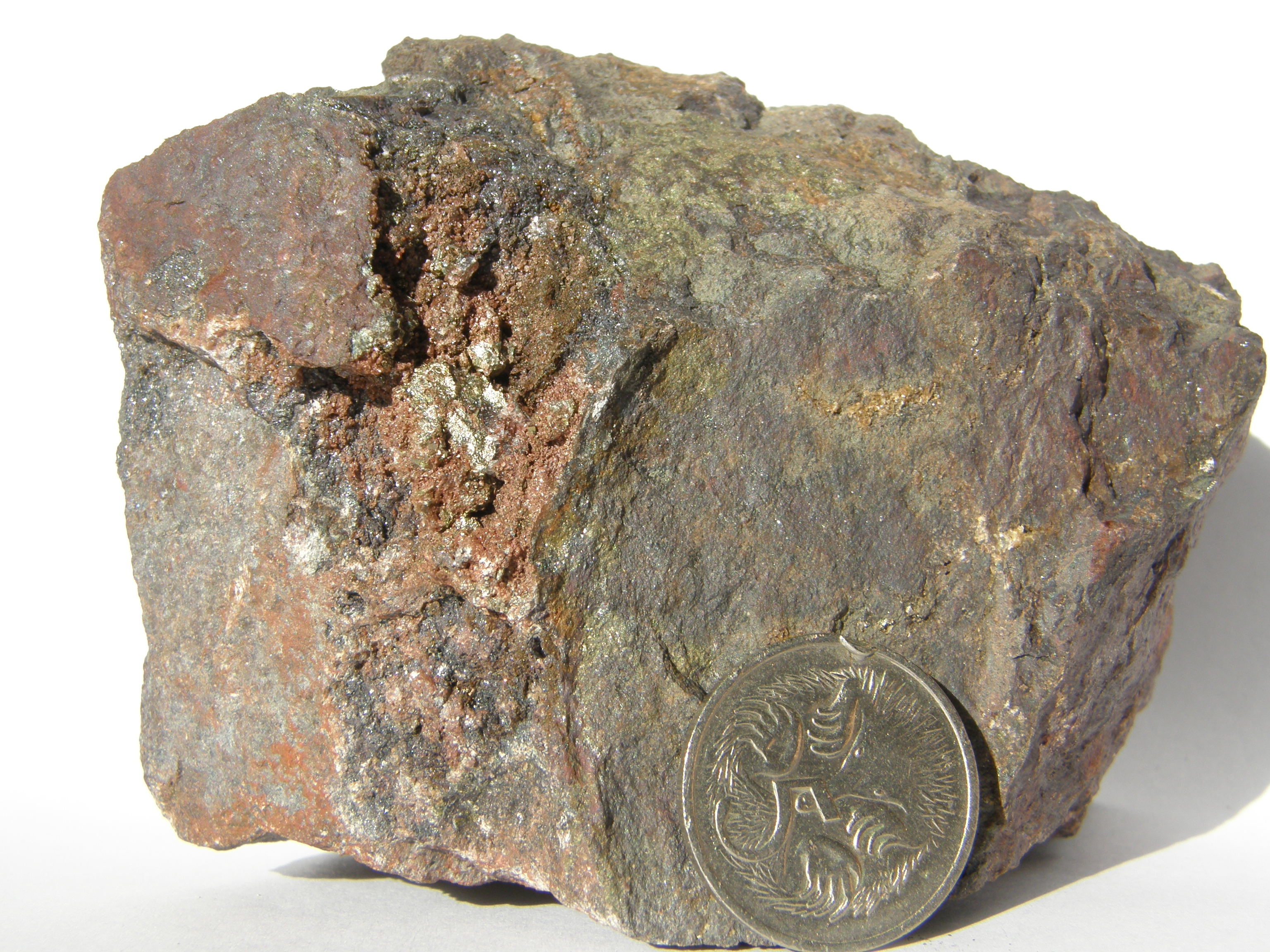 Chalcopyrite in hematised breccia, Prominent Hill, South Australia